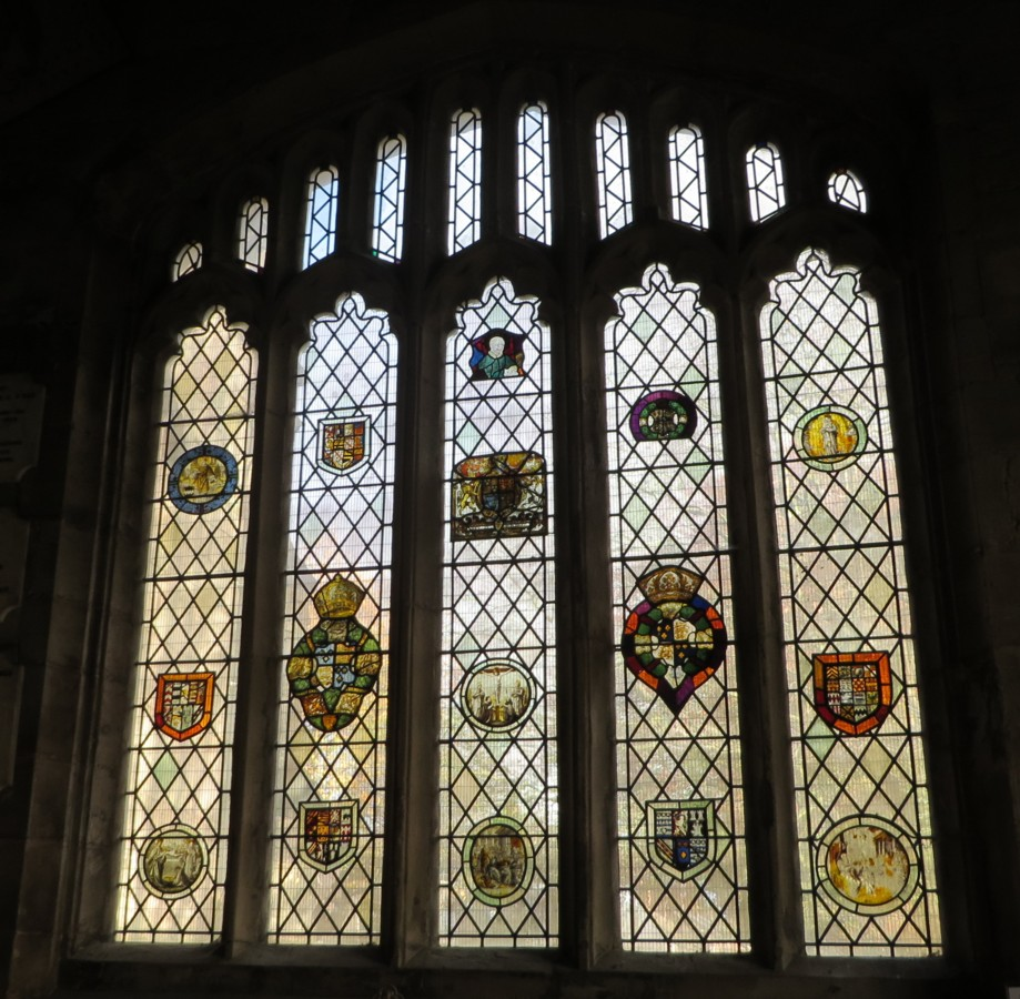 St Helen's Ashby-de-la-Zouch, Leicestershire, Hastings Chapel east window